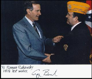 In 1992, President George H.W. Bush met with Roman Rakowsky of Ukrainian American Veterans Ohio Post 24, during his term as National Commander.